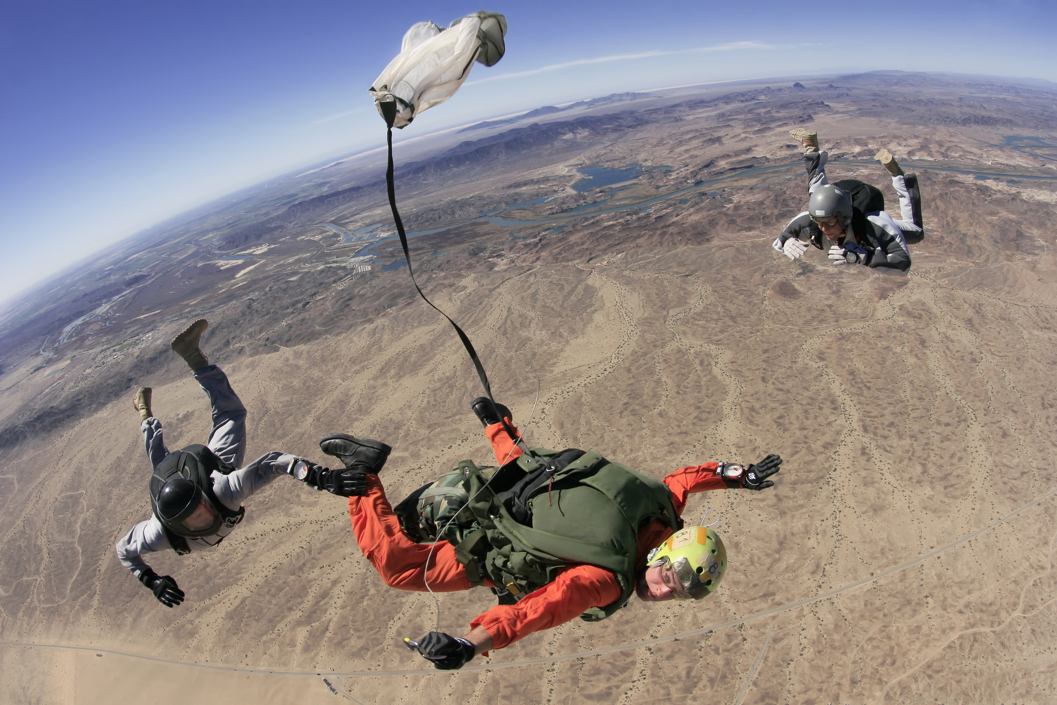 U.S. Army Military Freefall School, Military Free-Fall Parachutist Course (MFFPC) instructors (in white) evaluate a student (in orange) as they fall over the Yuma Proving Ground.